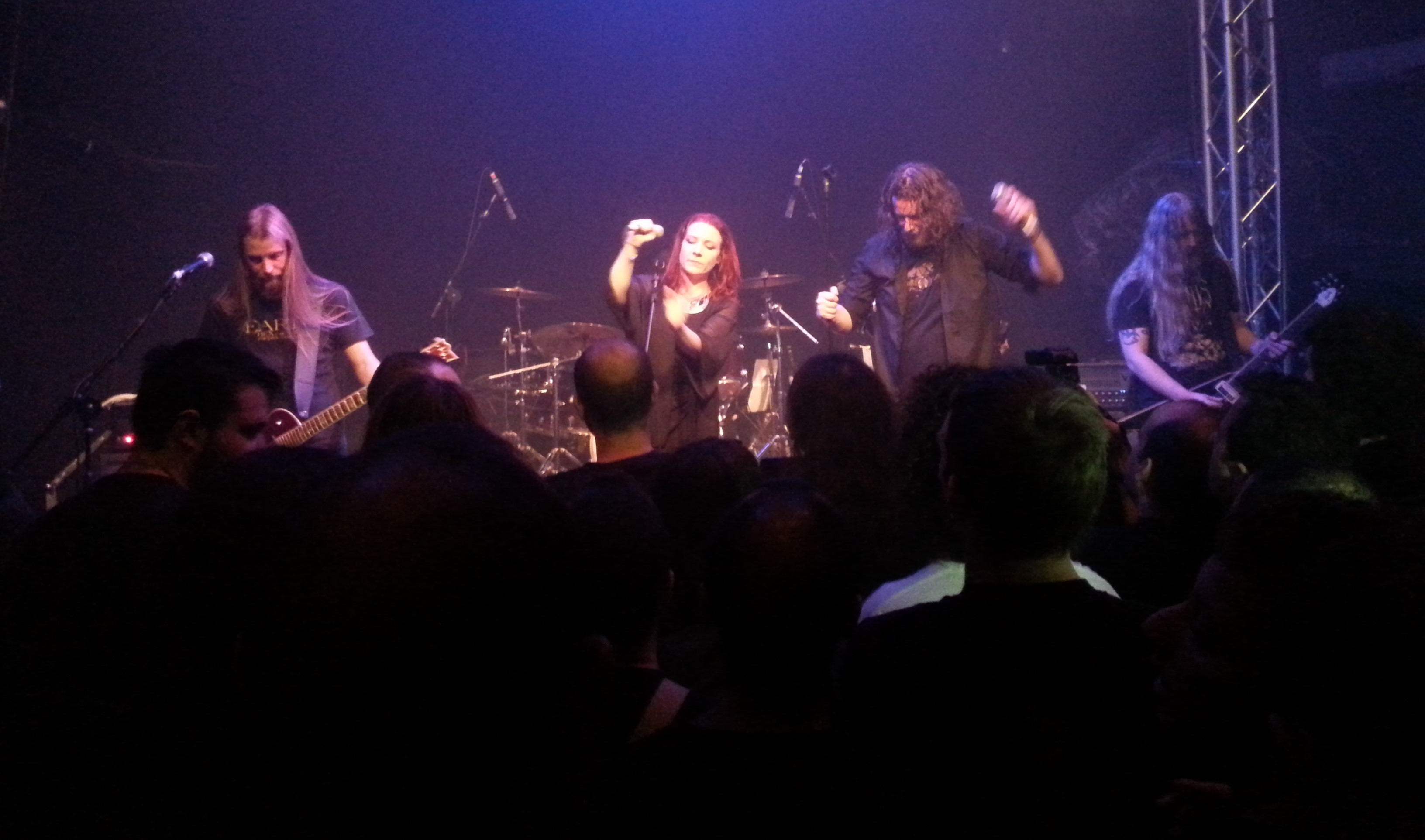 Swedish Doom Metal Band Draconian live (with live session female singer Lisa Cuthbert) in Tel Aviv, Israel, 2016.